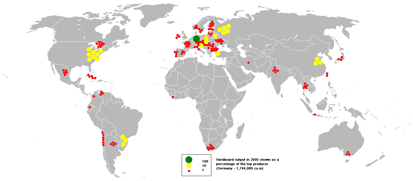 This bubble map shows the global distribution of hardboard output in 2005 as a percentage of the top producer (Germany - 1,744,000 cu.m). This map is consistent with incomplete set of data too as long as the top producer is known. It resolves the accessibility issues faced by colour-coded maps that may not be properly rendered in old computer screens. Data was extracted on 16th June 2007. Source - Based on Image:BlankMap-World.png